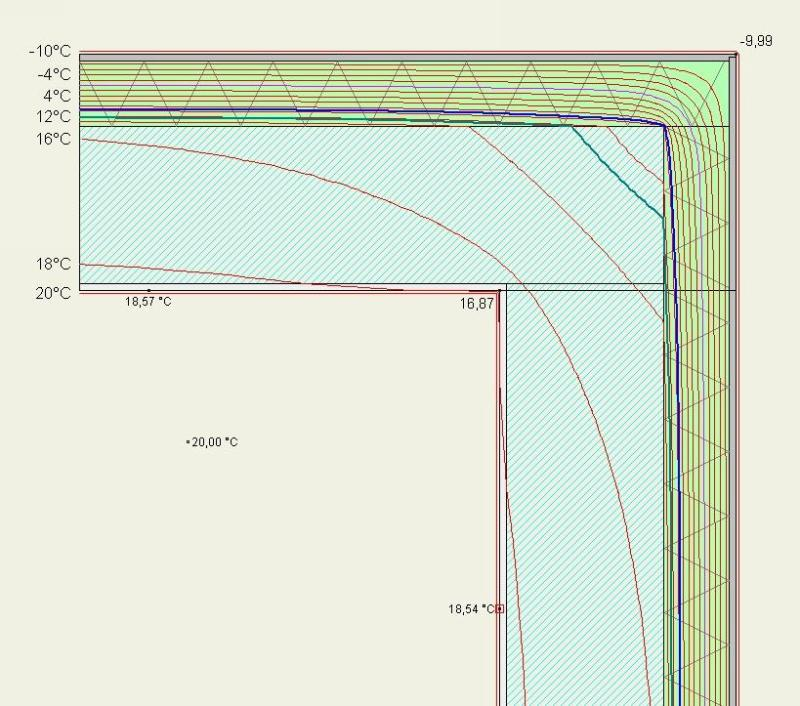 Geometric thermal bridge with isotherms